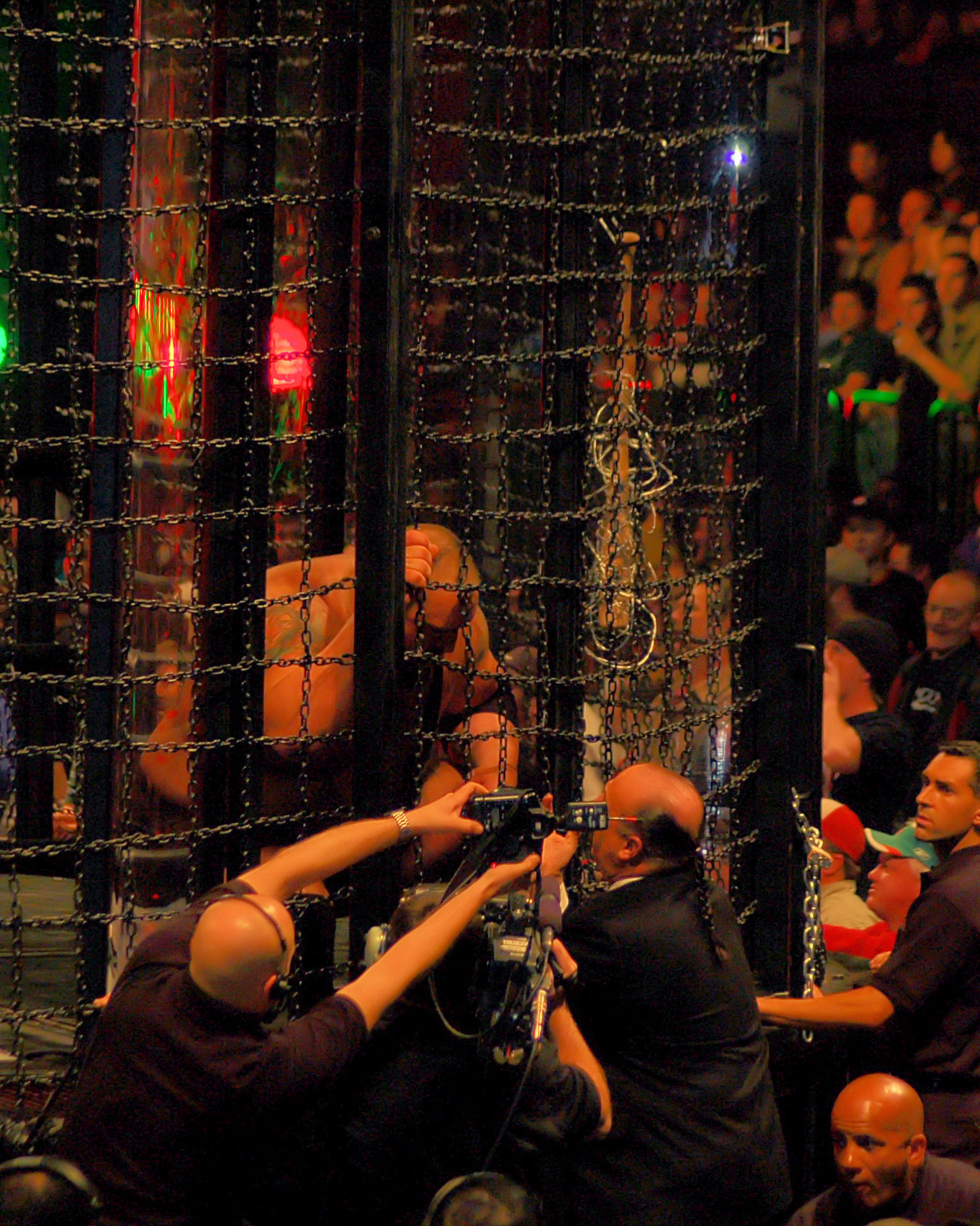 Show in December to Dismember.